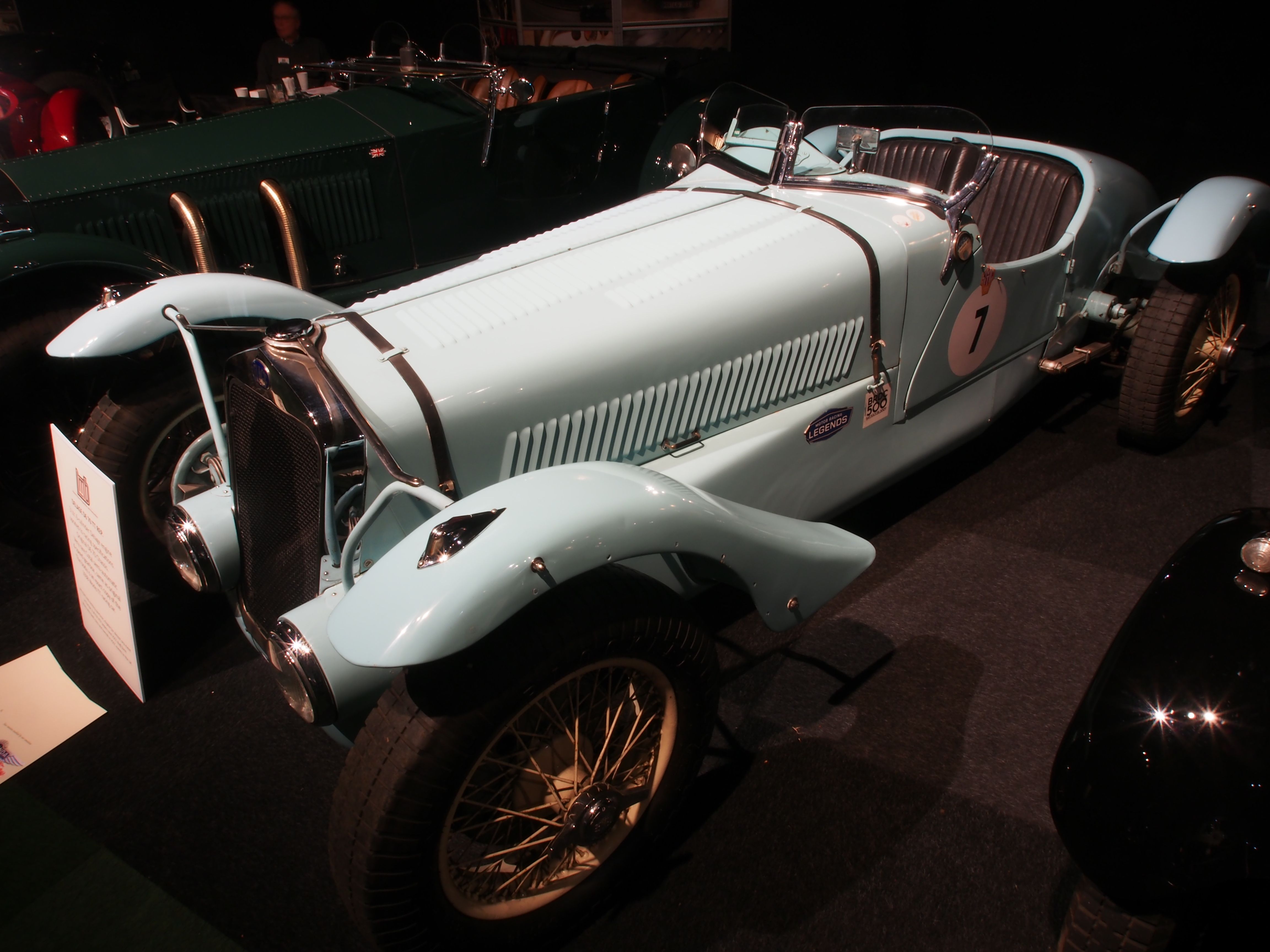 Photographed in Maastricht, The Netherlands.